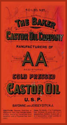 Castor oil label